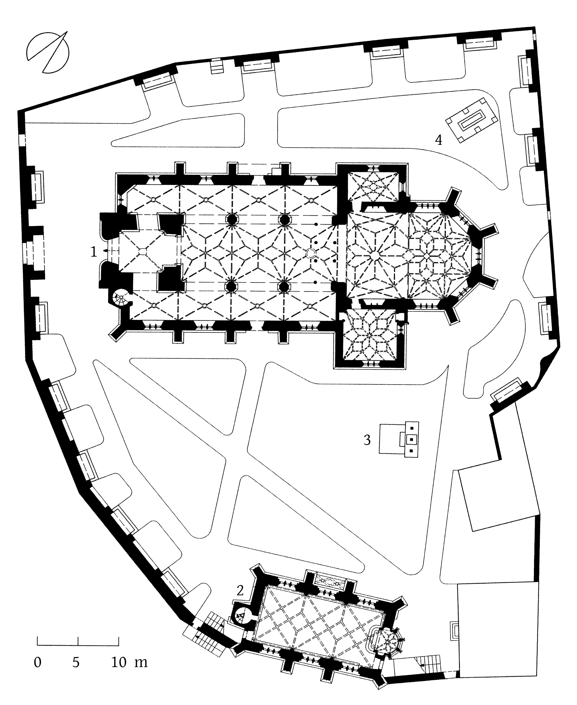 1 Catholic Parish church 2 St. Michael's Chapel 3 Crucifixion Group 4 Sutton's Grave